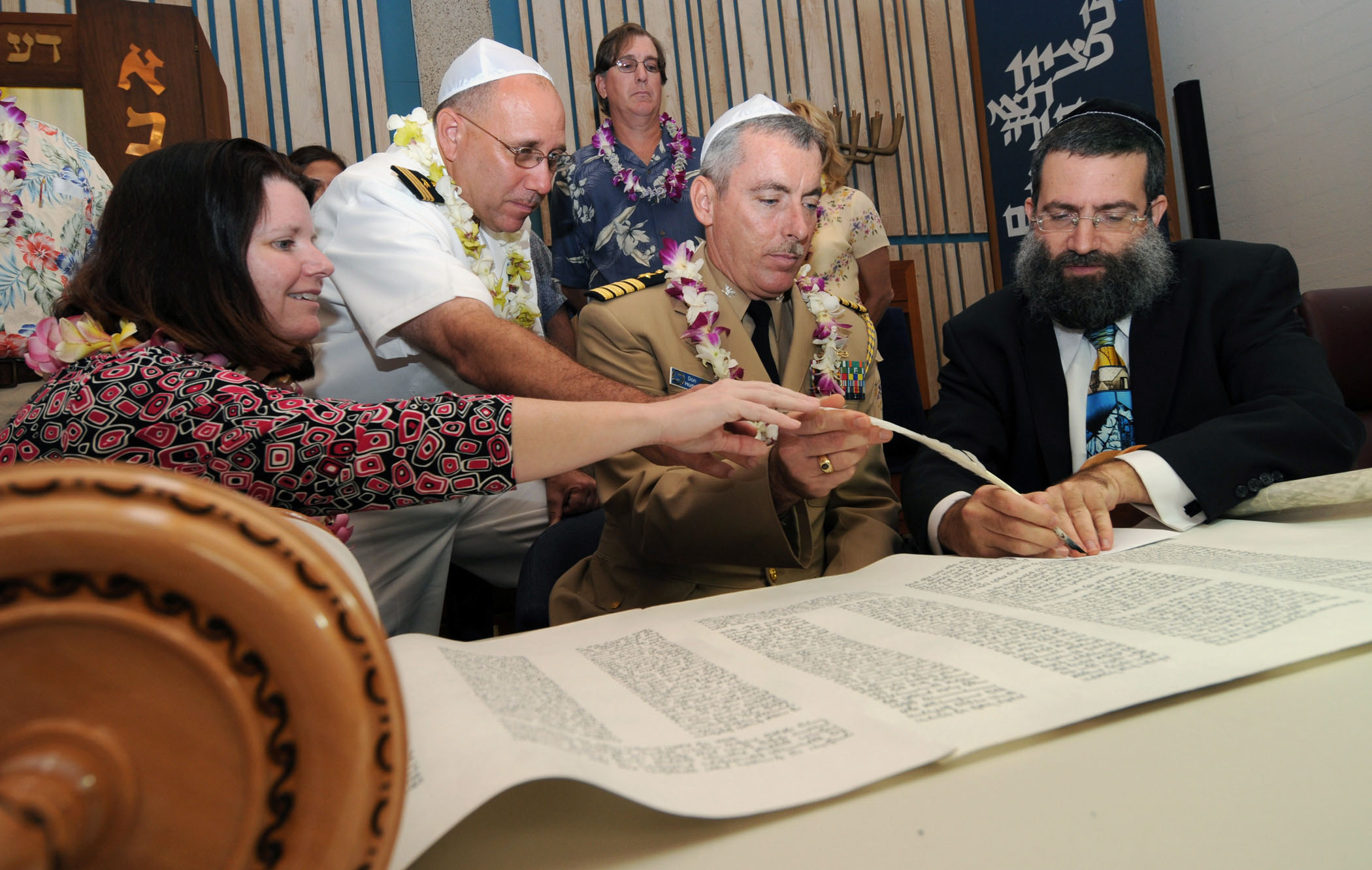 PEARL HARBOR (Oct. 26, 2008) Torah dedication ceremony participants Susan Hodge, left; Cmdr. Timothy Koester, Naval Station Pearl Harbor Chaplain; Capt. Donald Hodge, chief of staff for Commander, Navy Region Hawaii and Commander, Naval Surface Group Middle Pacific; and Rabbi Moshe Drum write one of the last letters in a new Sefer Torah at the Aloha Jewish Chapel at Naval Station Pearl Harbor. The new Torah, created for military families stationed in Hawaii, will be used for future services at the chapel. The $45,000 cost was paid for by donations from Jewish and non-Jewish military personnel and civilians. (U.S. Navy photo by Mass Communication Specialist 2nd Class Michael A. Lantron/Released)